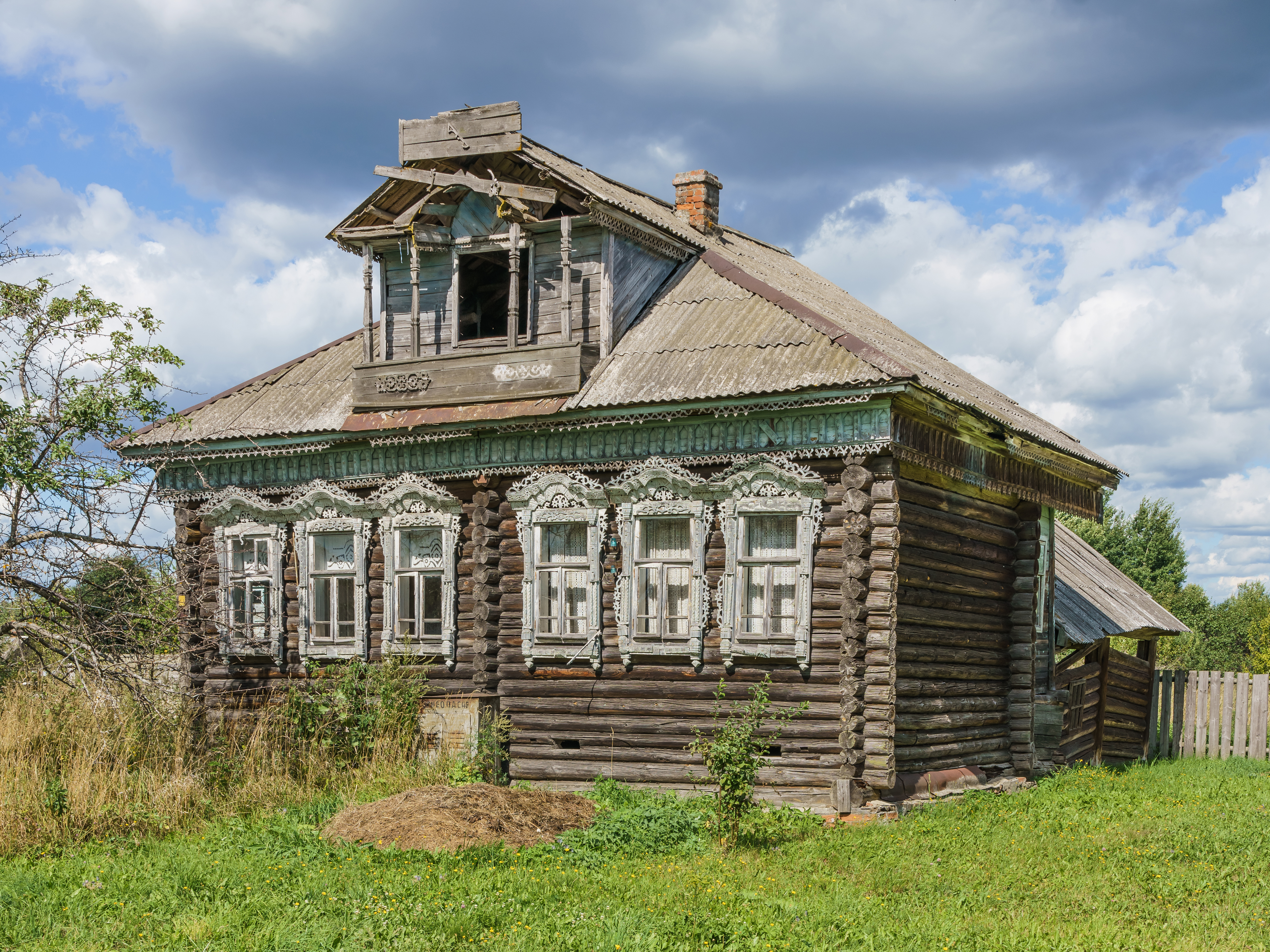 Wooden house in Melyoshino, Ivanovo Oblast, Russia.